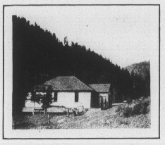 Men's club built by Colorado Fuel & Iron in Calcite, Colorado following Ludlow Massacre and Colorado Coalfield War. Image first appears in essay "Colorado's Civil War and Its Lessons," published in Frank Leslie's Weekly on 5 November 1914.